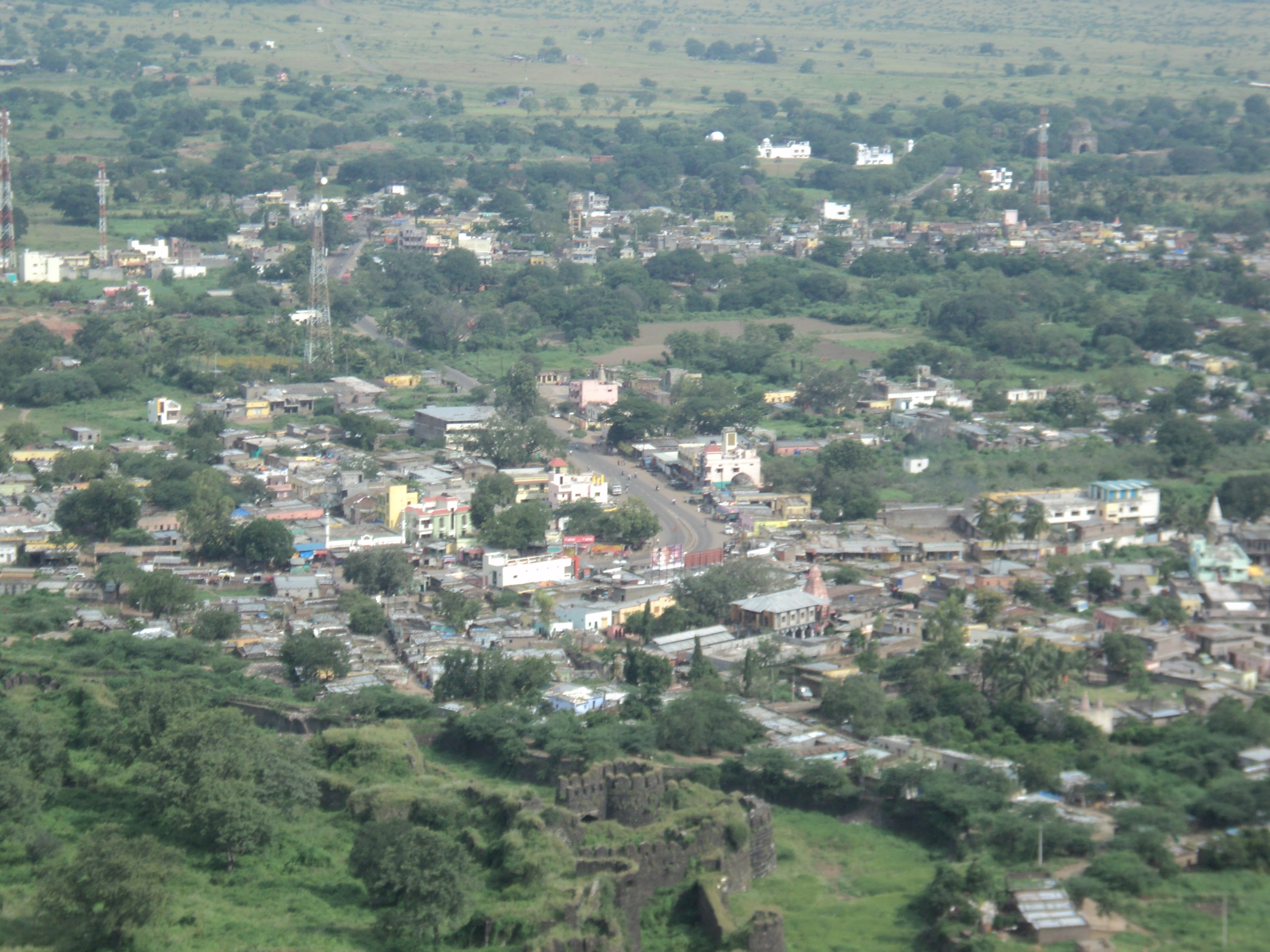 Daulatabad Town as seen from the fort